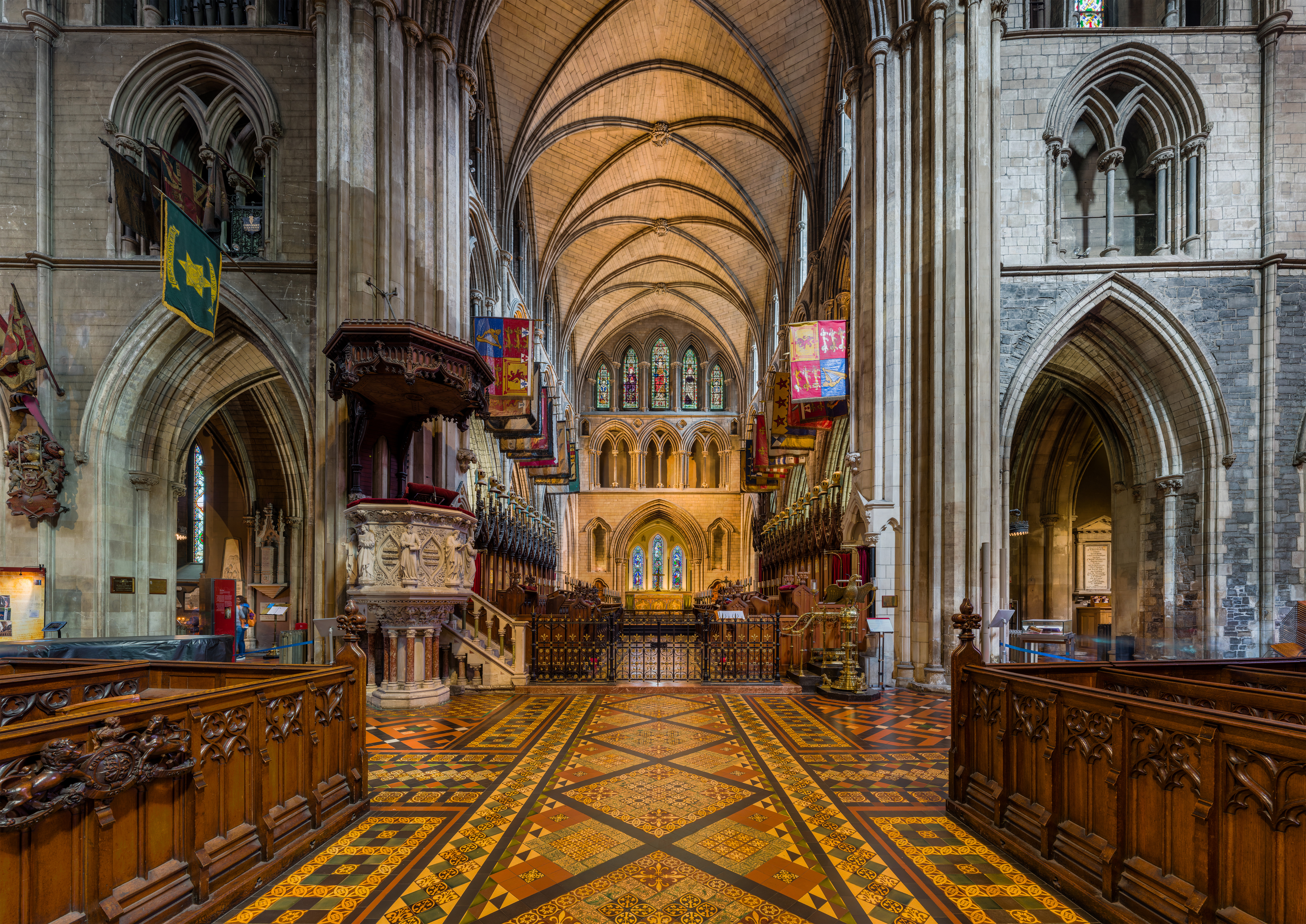 The nave of St Patrick's Cathedral in Dublin, Ireland, looking towards the choir.